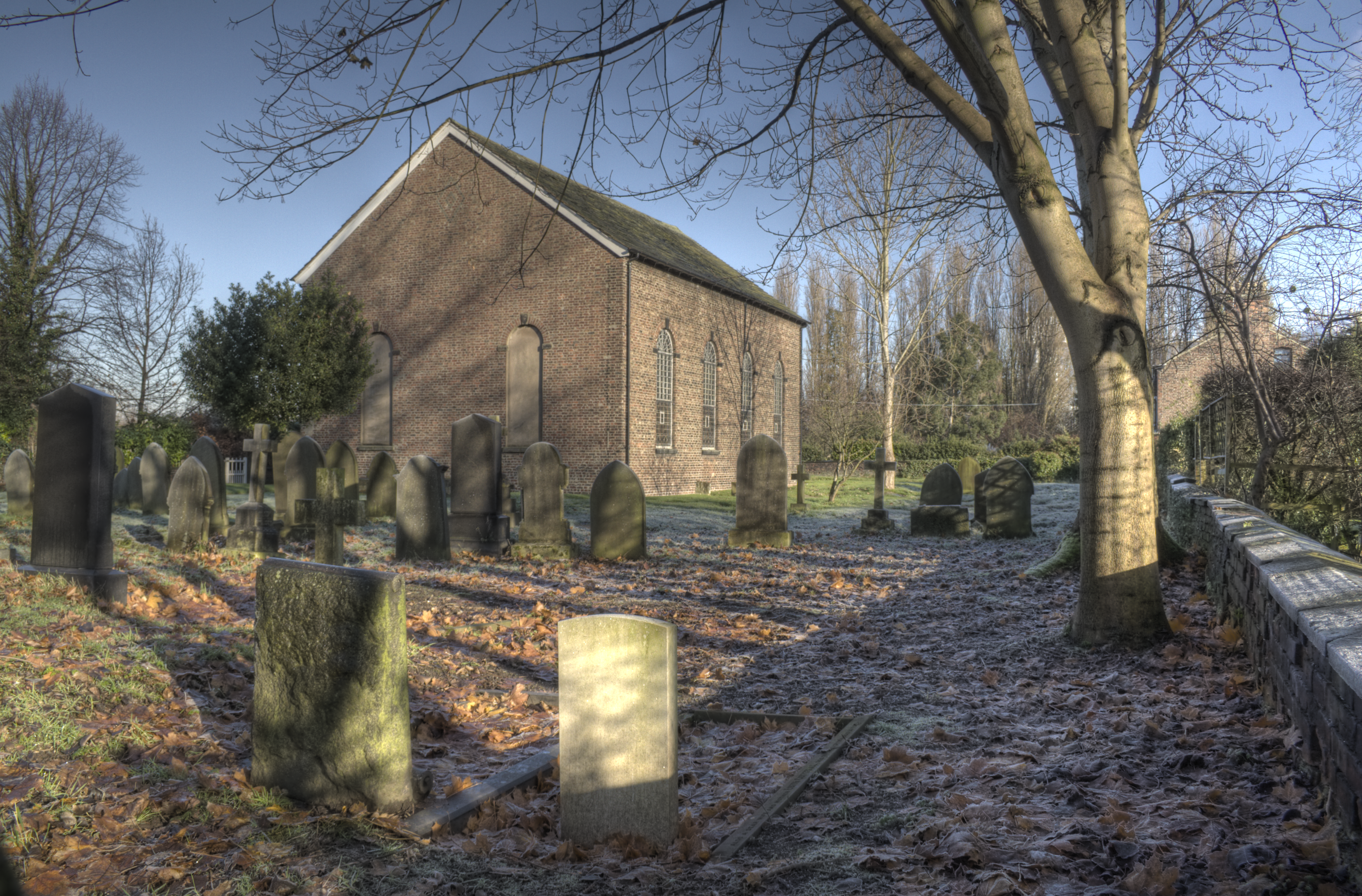 The rear and side of St George's Church in Carrington, Greater Manchester. The front of the church, while containing a nice window, was in the shade and there isn't the option to get a good shot with the lack of space. Viewed from the south.